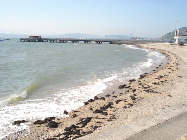 Beaumaris beach and pier